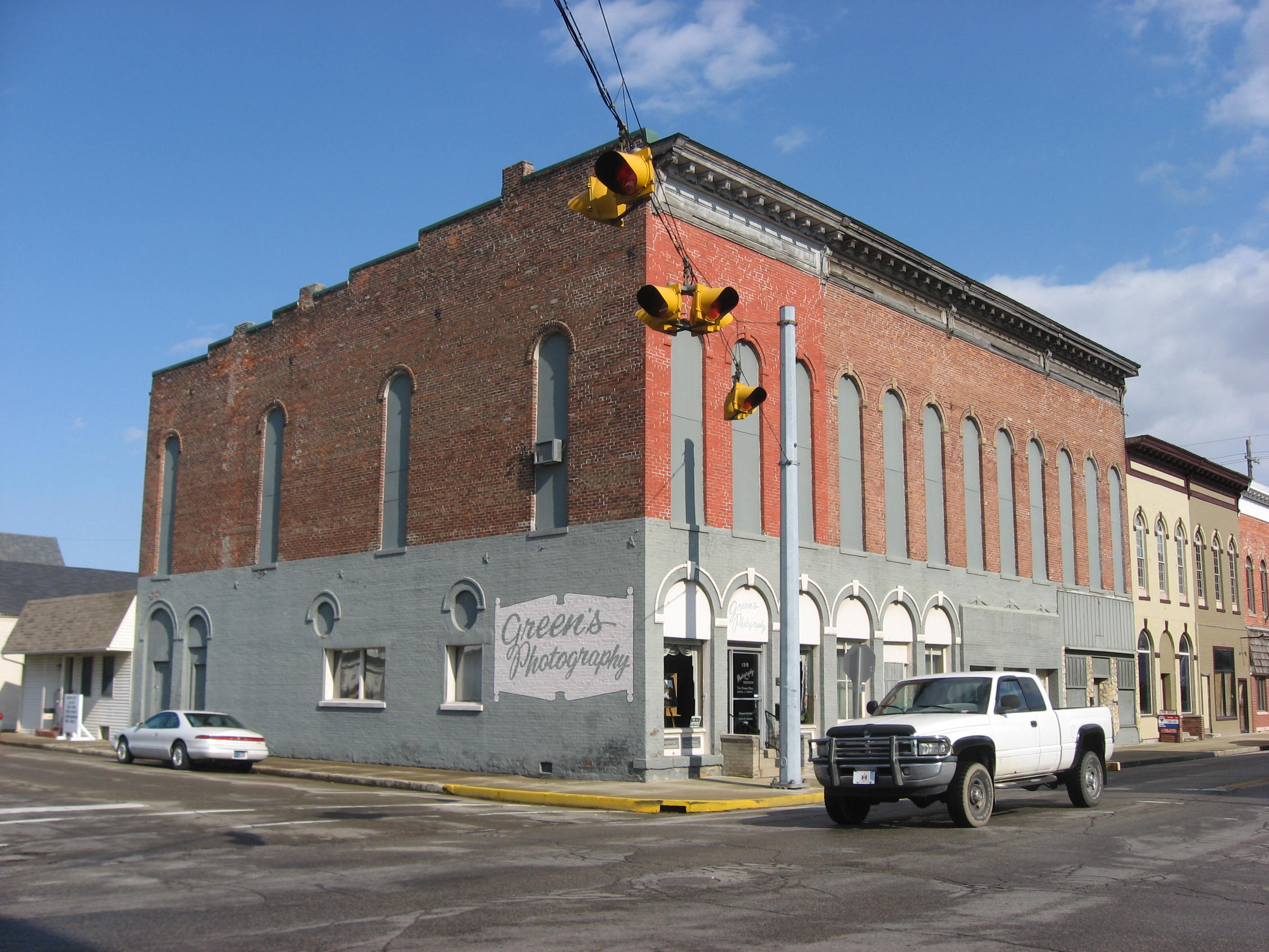 Front and western side of Melodeon Hall, located at the intersection of Second (U.S. Route 52) and Morgan Streets in Rushville, Indiana, United States. Built in 1872, it is listed on the National Register of Historic Places, and it is part of the Register-listed Rushville Commercial Historic District.